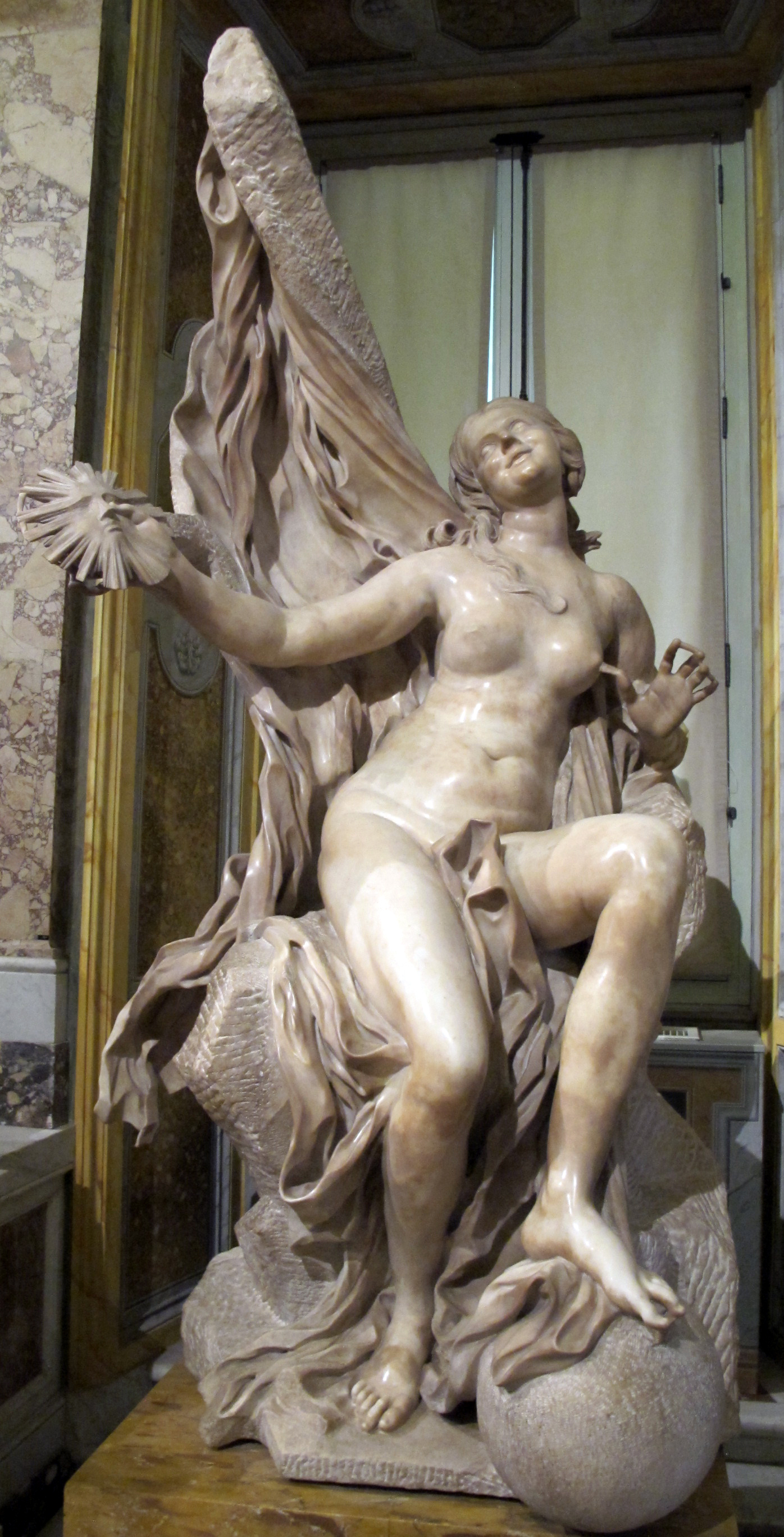 Sculptures in the Galleria Borghese (Rome)